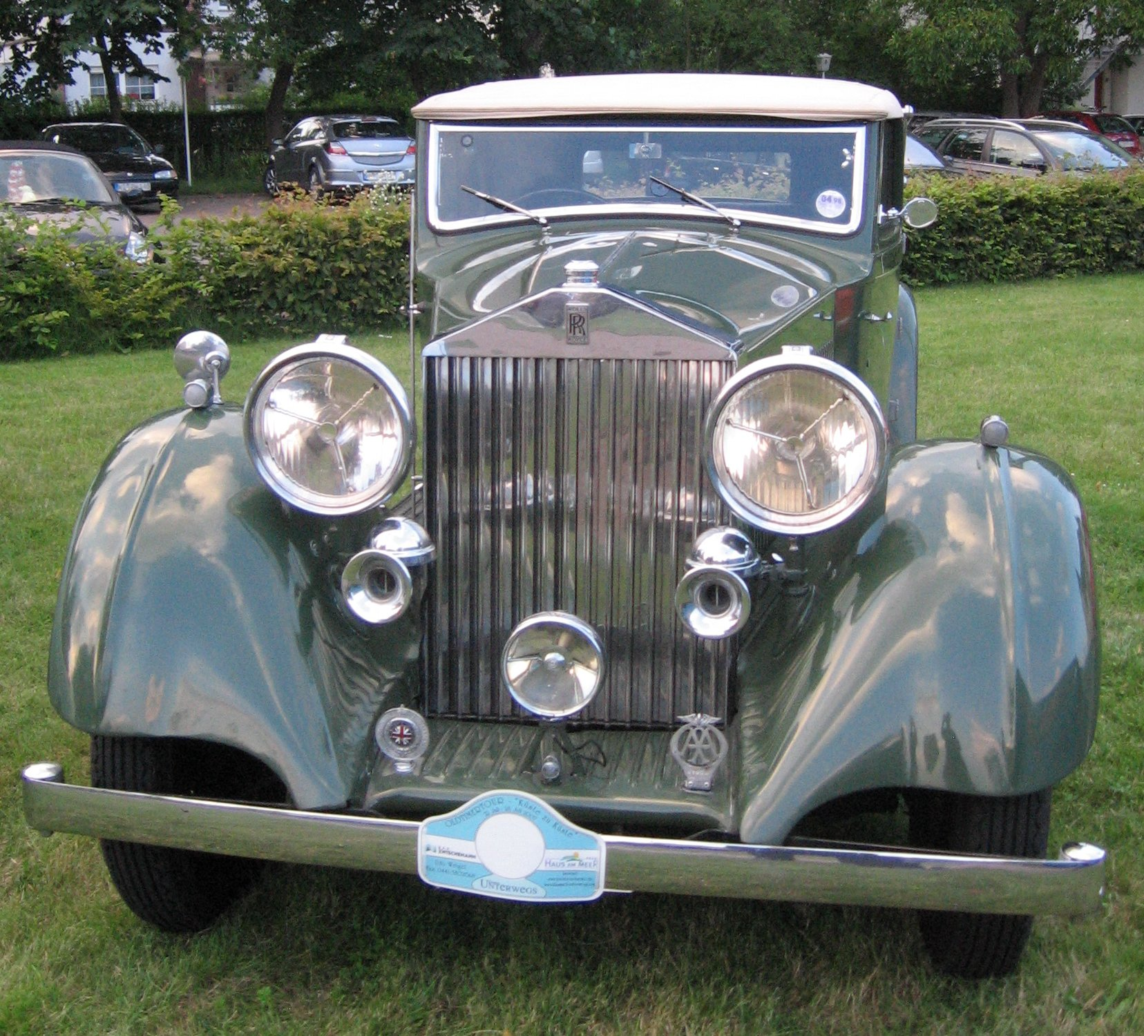 Rolls-Royce, 1935